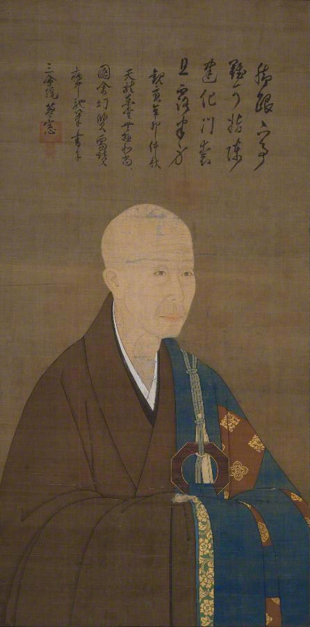 Muso Soseki, Jissa-in